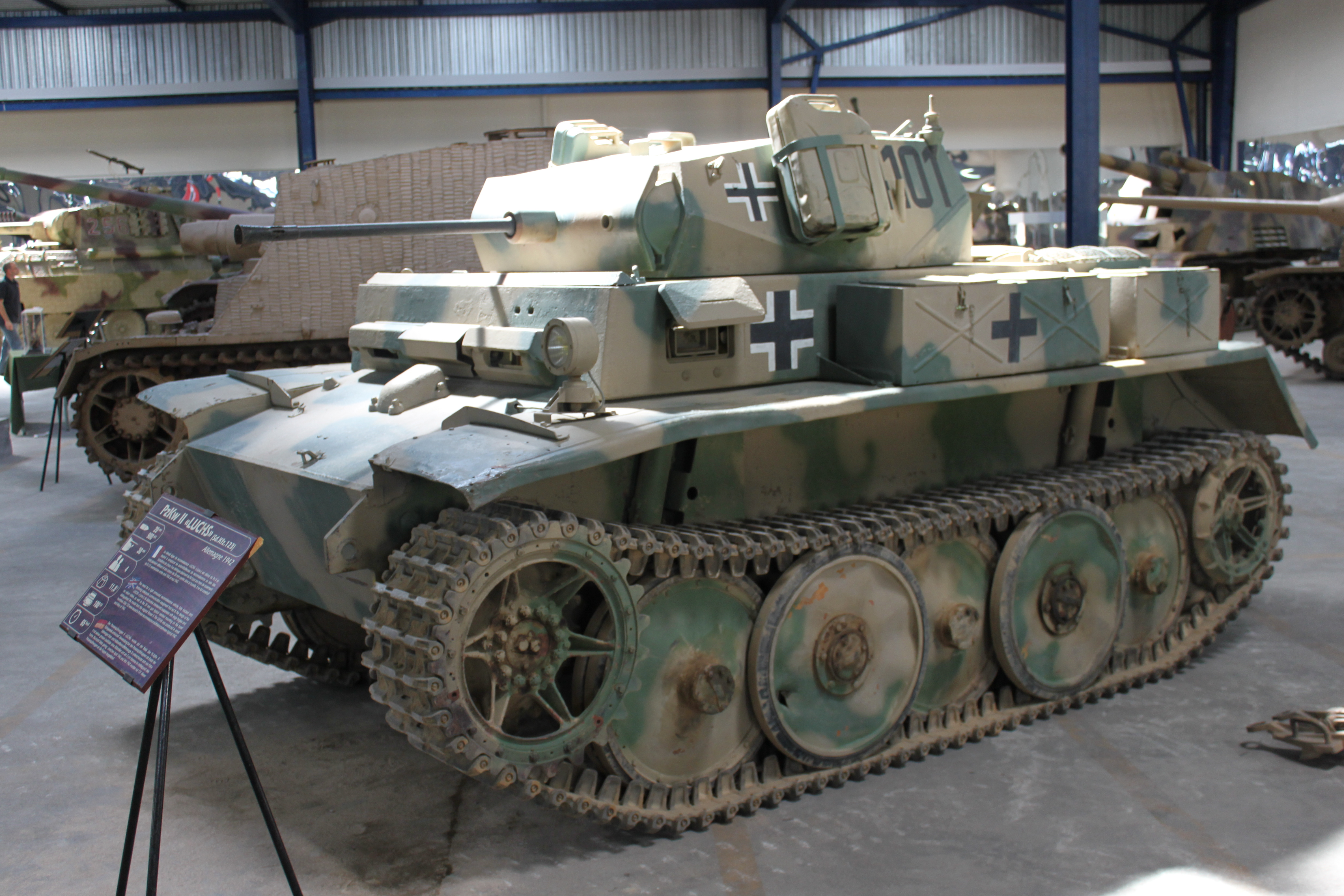 German tank Panzer II "Luchs" (WW II) at the "Musée des Blindés" in Saumur (France)